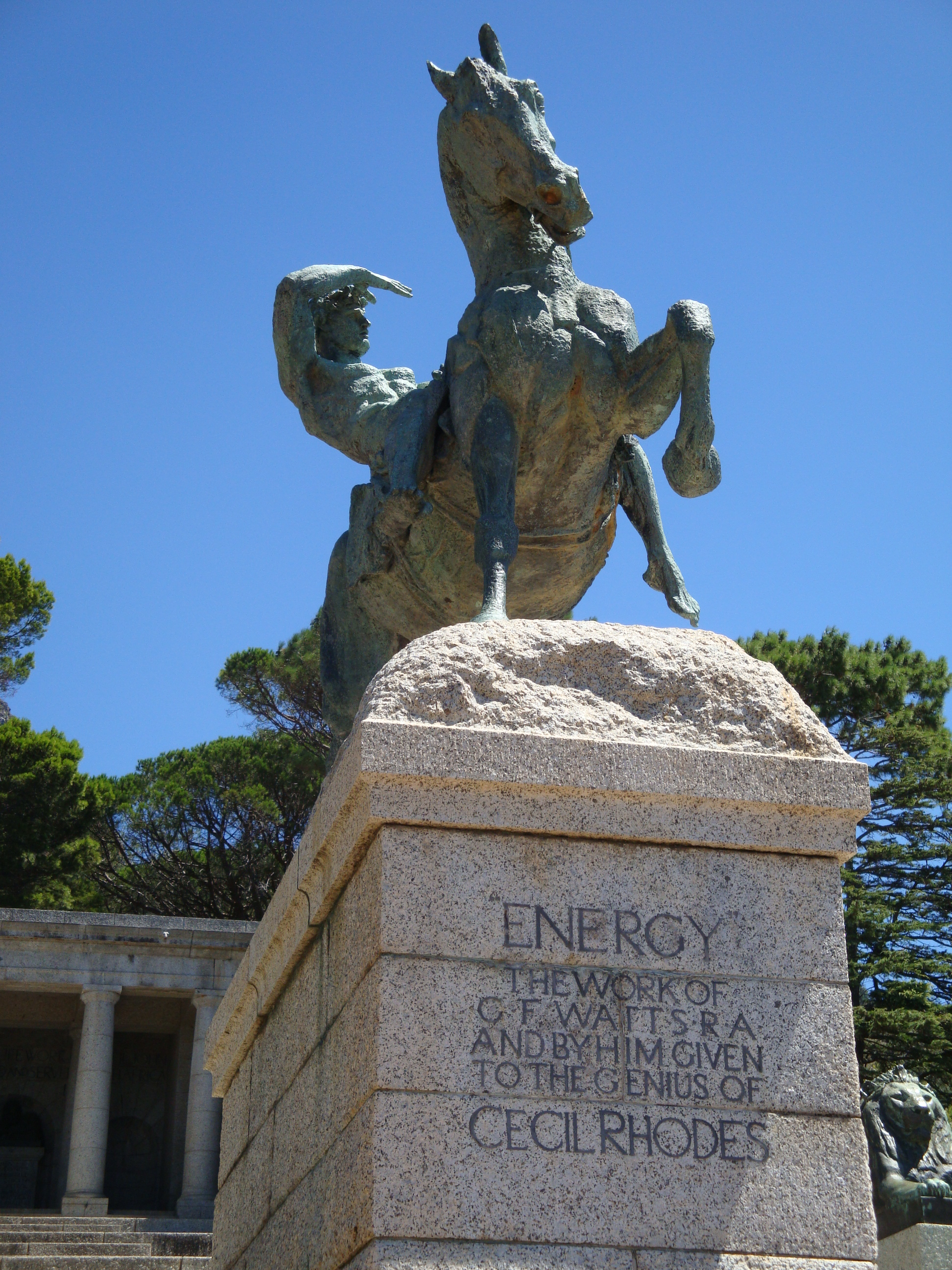 Rhodes Memorial in Cape Town South Africa